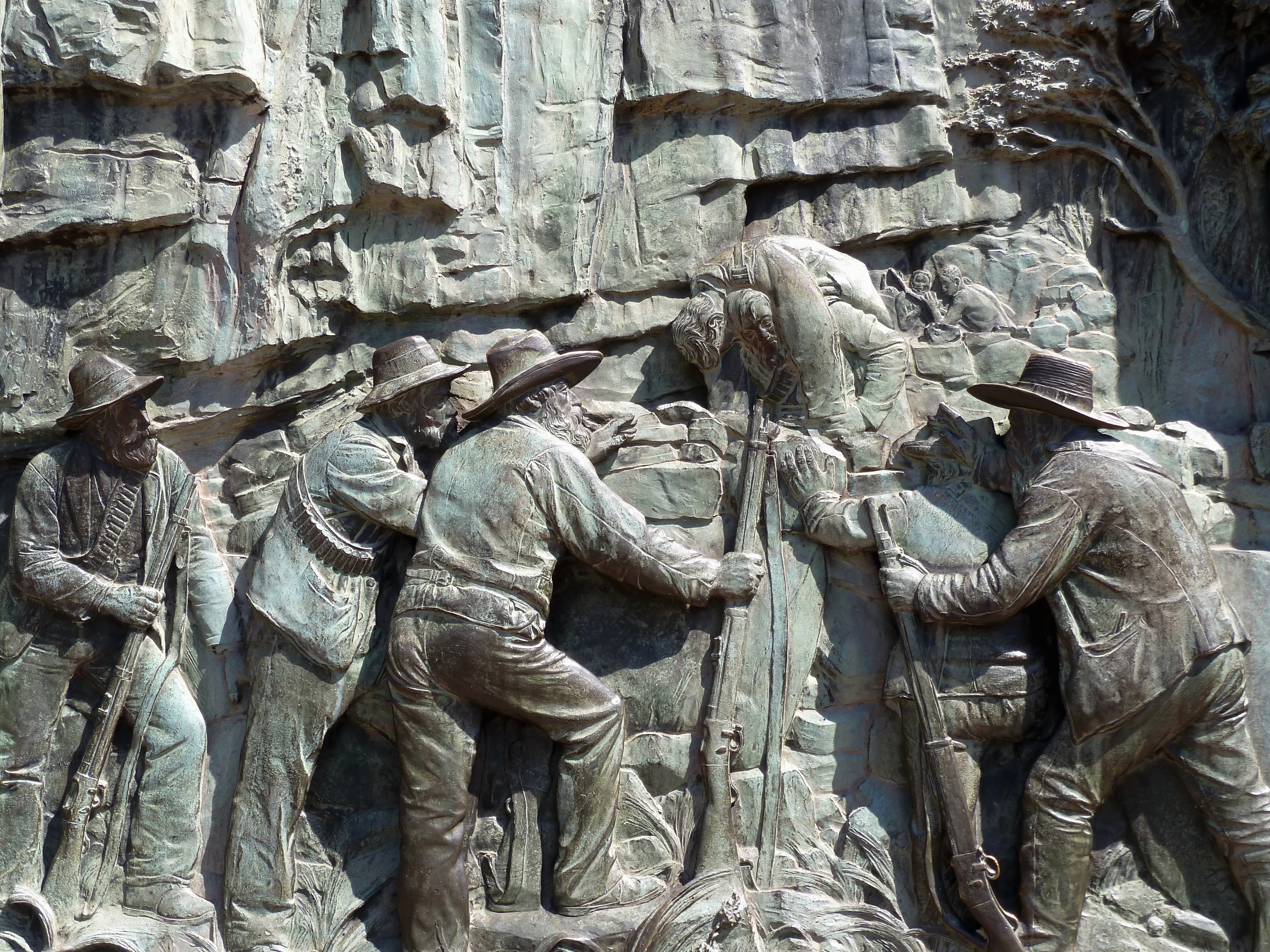 Eastern side panel of the Kruger statue on Church square, Pretoria. It depicts field cornet Paul Kruger rescuing the body of Commandant-general Piet Potgieter at Makapansgat (Ndebele: Moshate), current Limpopo province, in November 1854. The siege of the cave lasted from 25 October to 21 November 1854. On 6 November Piet Potgieter was inspecting the barricaded cave entrance from a precipice above. When struck by the sniper bullet, he tumbled forward and landed at the entrance to the cave. To rescue his body from probable ritual mutilation, it was retrieved from behind the 1,8 m high barricade by the 29 year old Paul Kruger and a Tsonga private from Zoutpansberg. Potgieter's coffin was transported by a guard of honor to his farm Middelfontein (some 20 km north of Nylstroom), where he was buried.[1]